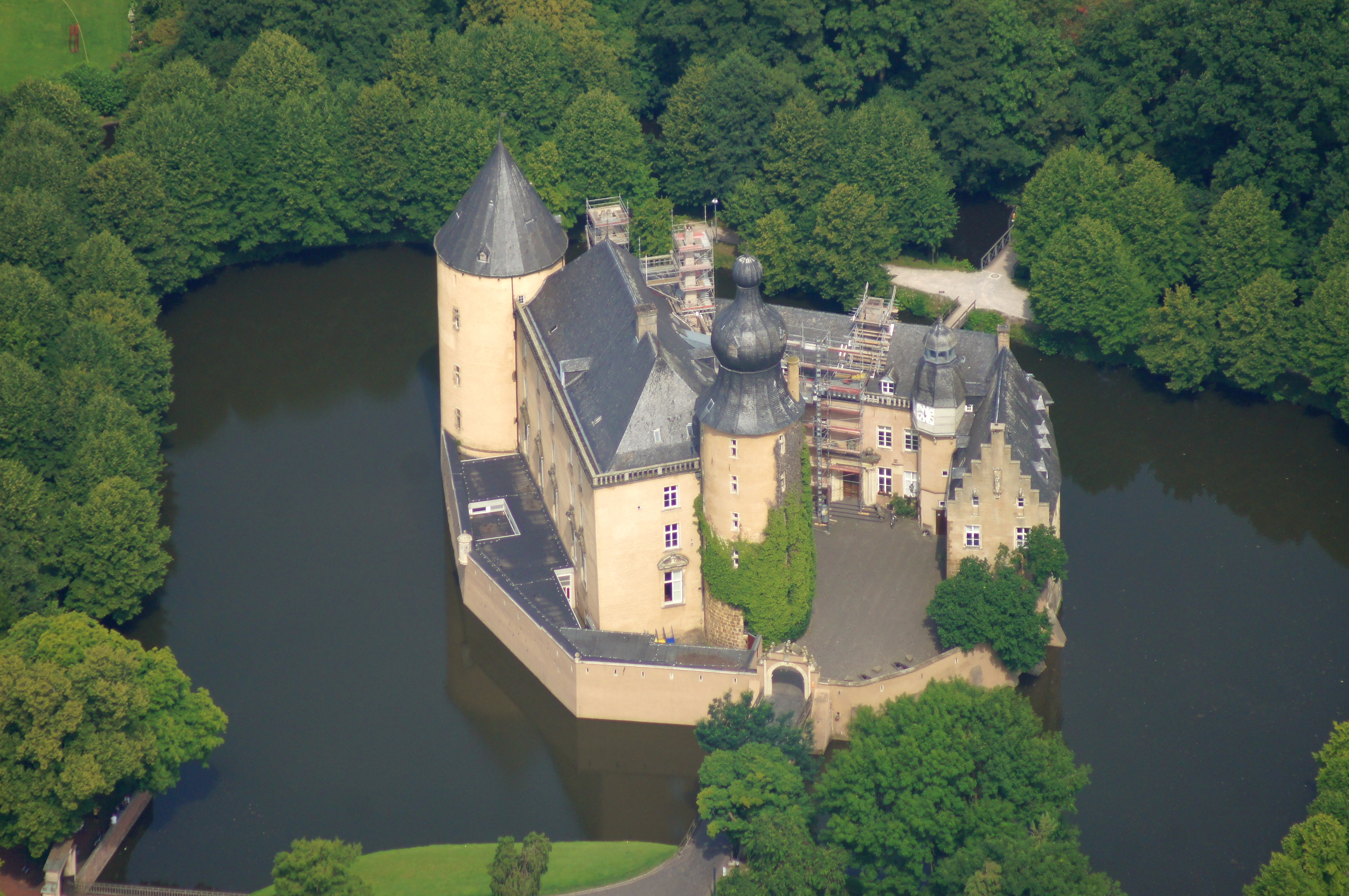 The castle of Gemen is situated in Borken, district of the same name in North Rhine-Westphalia, Germany.